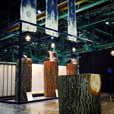 Nadel & Pen exhibition in Munich